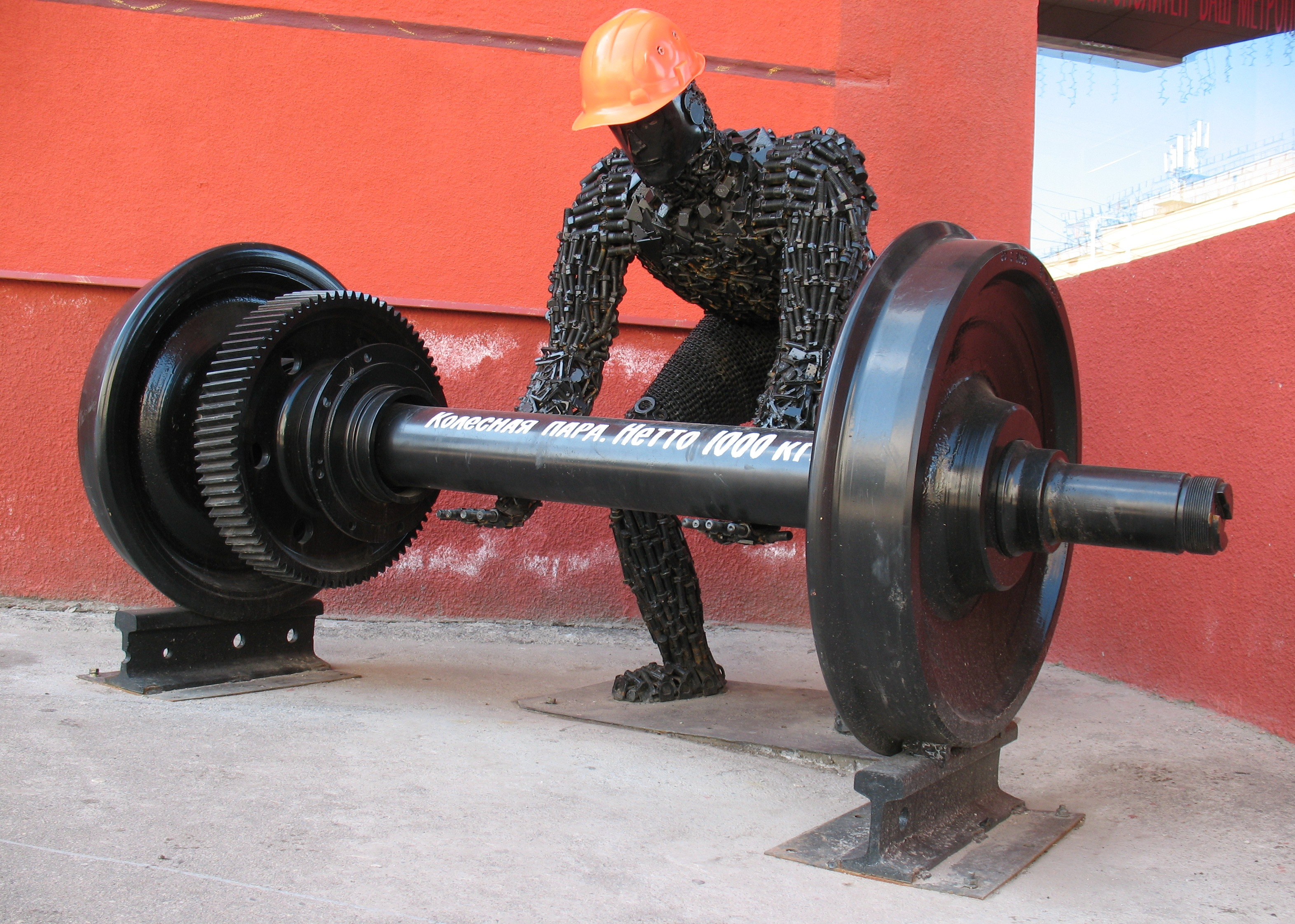 Wheelsets Monument (rail transport) in Kharkov City. See many bolts.